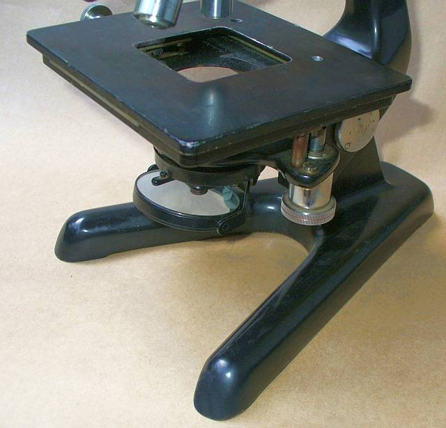 Microscope.